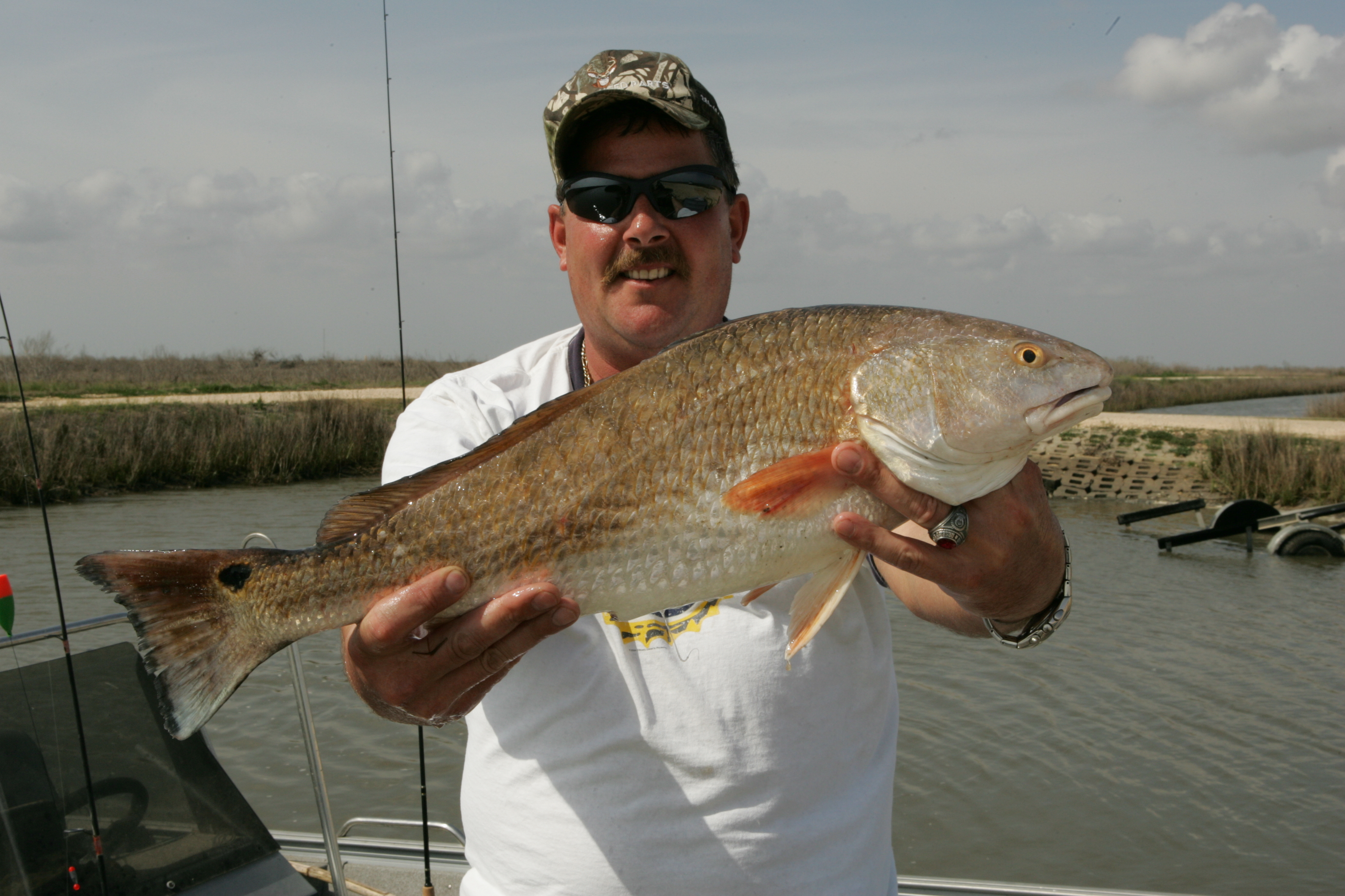 A very happy visitor caught this beautiful Red Drum fish (Sciaenops ocellatus) in the morning on the Anahuac National Wildlife Refuge.